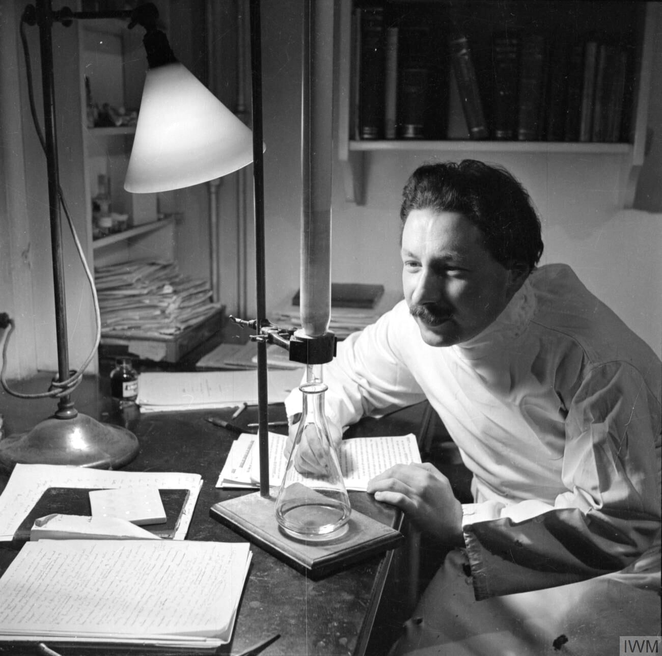 Penicillin Past, Present and Future- the Development and Production of Penicillin, England, 1944 Dr Ernest Chain undertakes an experiment in his office at the School of Pathology at Oxford University. Dr Chain originally came from Germany, but became a naturalised British subject in 1933. With his colleague, Professor Florey, and their team, he was instrumental in the isolation of penicillin.